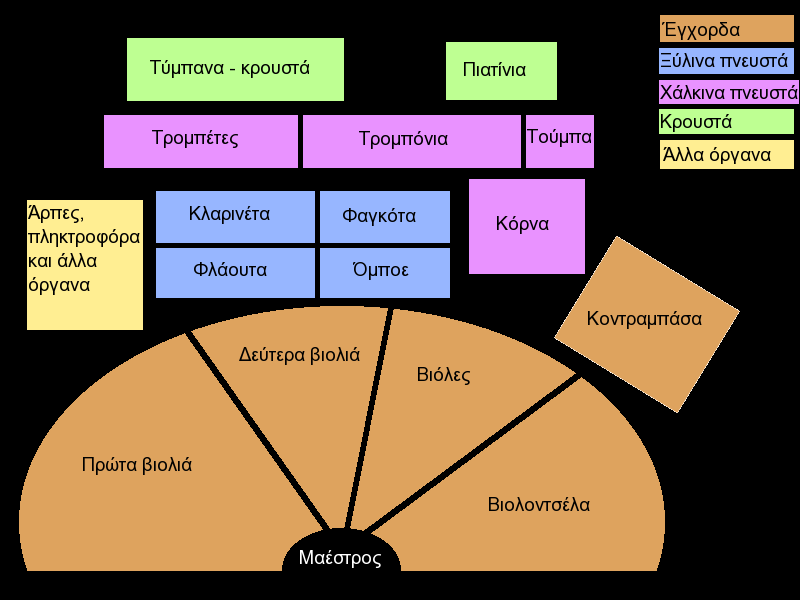 Orchester diagram